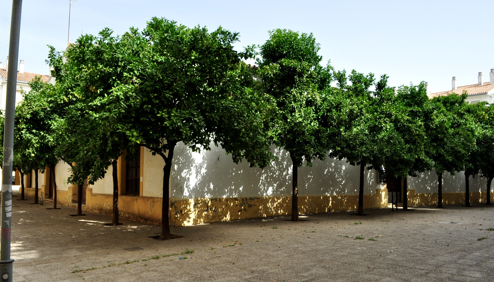 Callejón de los Bolos Exhibition Room, Jerez de la Frontera